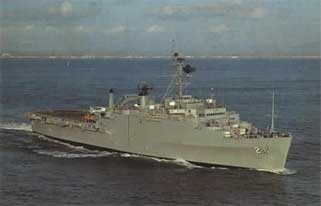 The U.S. Navy dock landing ship USS Vancouver (LPD-2) underway, circa in the 1970s.